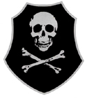 estonian military insignia